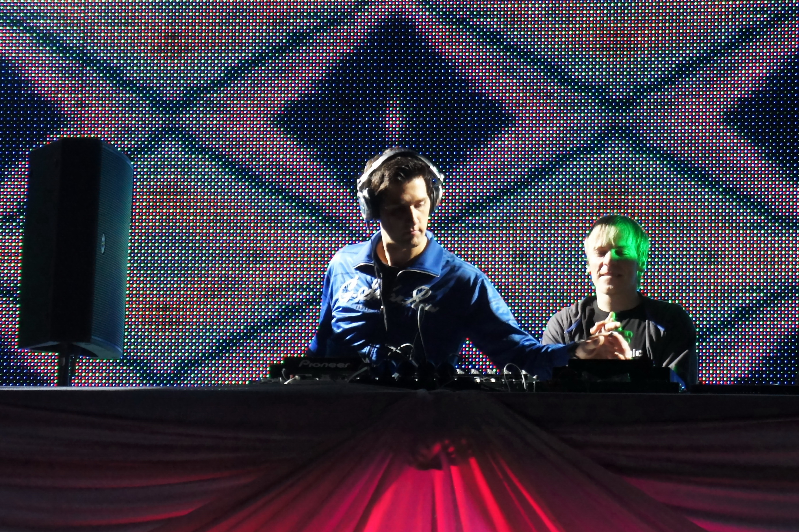 Ronski Speed ​​Speech at First Open Air-2011 Torbeevo near Moscow